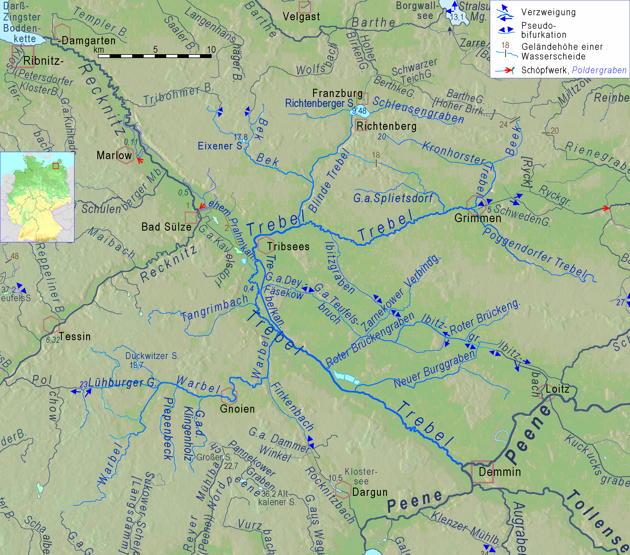 Cutout of the map of the basins of the rivers Peene, Zarow, Recknitz and Ryck; with relief background. name differring from those written in topographic maps haved been collected from water specialists of the maintaining institutions. This map may be incomplete, and may contain errors. Don't rely solely on it for navigation.